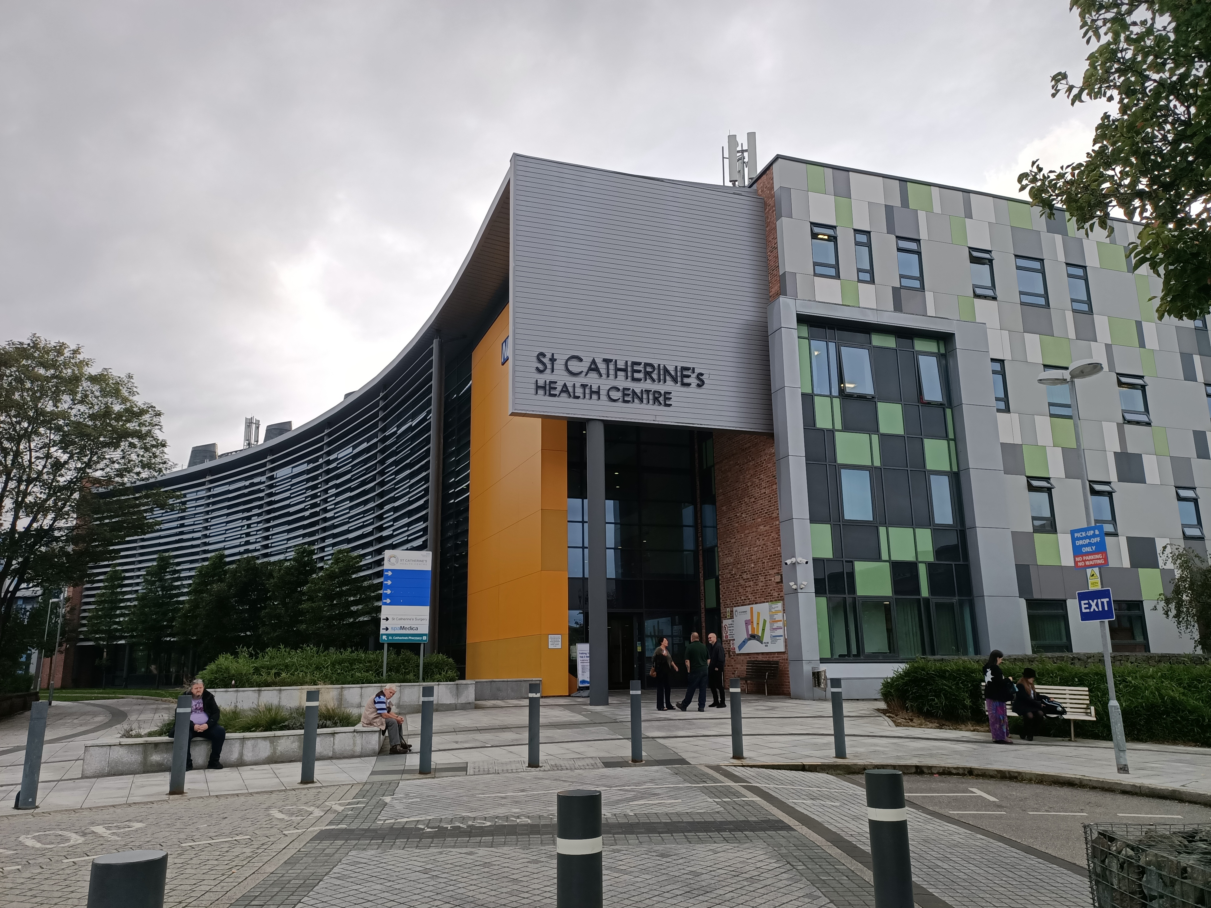 An updated image of St Catherine's Health Centre post-2013 redevelopment to replace the current outdated lead image on the page.